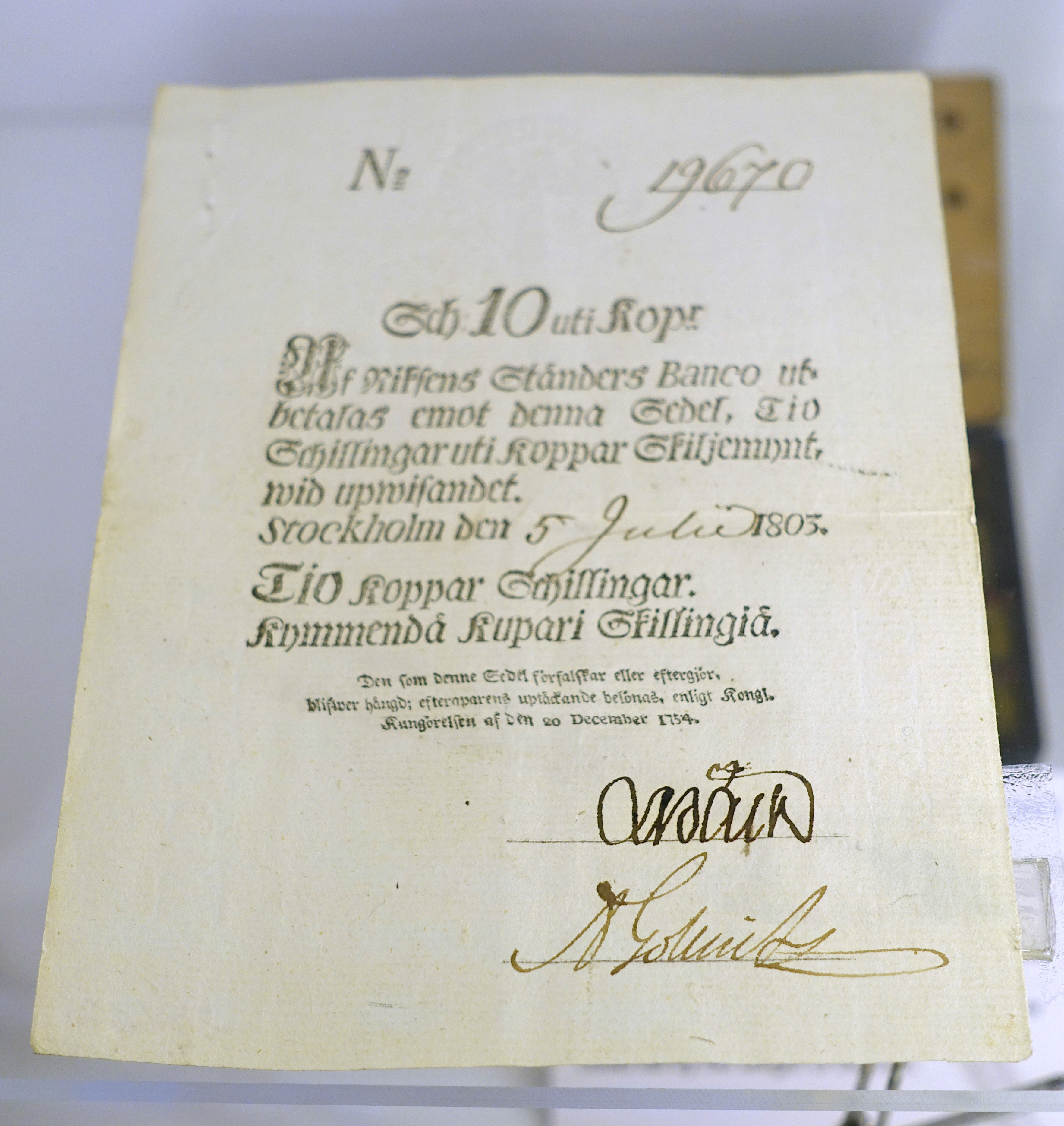 Exhibit in the Tekniska museet, Stockholm, Sweden. This work is old enough so that it is in the public domain.